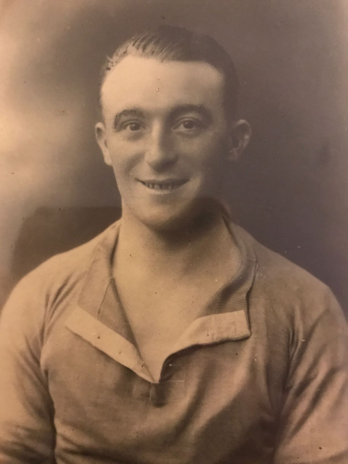 Professional photo of Billy Clayson